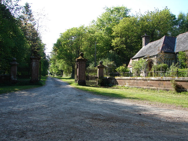 East Lodge, Springkell Estate East Lodge stands at East Avenue entrance into the Springkell Estate.